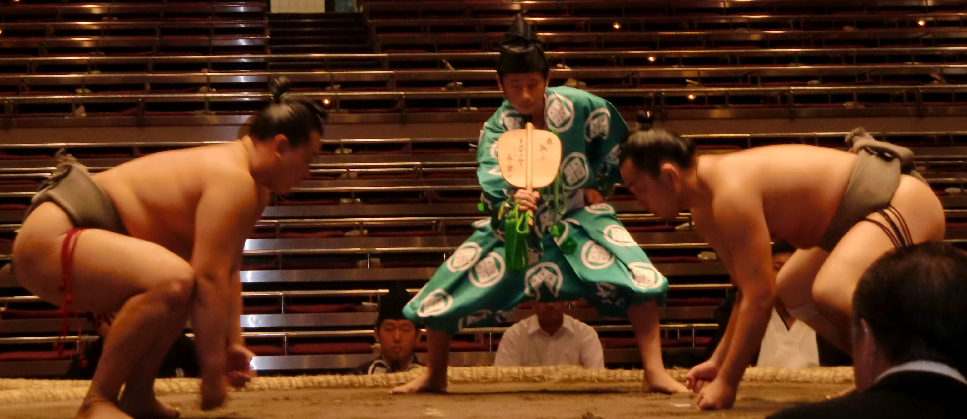 Taken by myself at a recent tournament